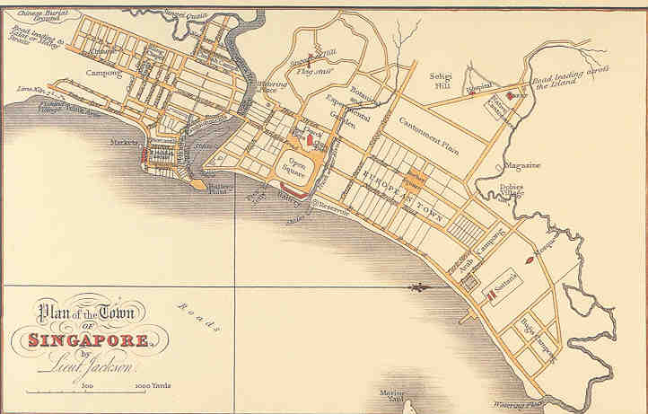 Plan of the Town of Singapore by Lieutenant Philip Jackson, who was the engineer and land surveyor tasked to oversee the physical development of Singapore. Commonly known as the Jackson Plan, it is now displayed in the Singapore History Gallery of the National Museum of Singapore.